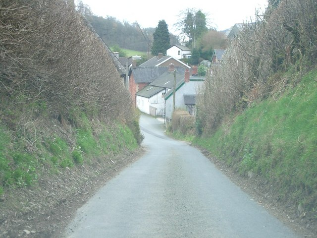 The approach to Llangunllo